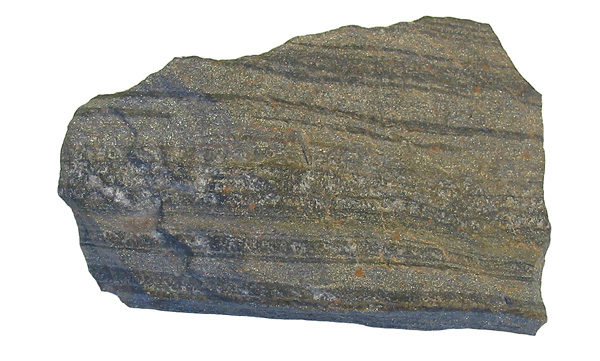 Rock sample (iron ore) is from Krivoy Rog, Ukraine. This rock is a property of museum of geology of University of Tartu.